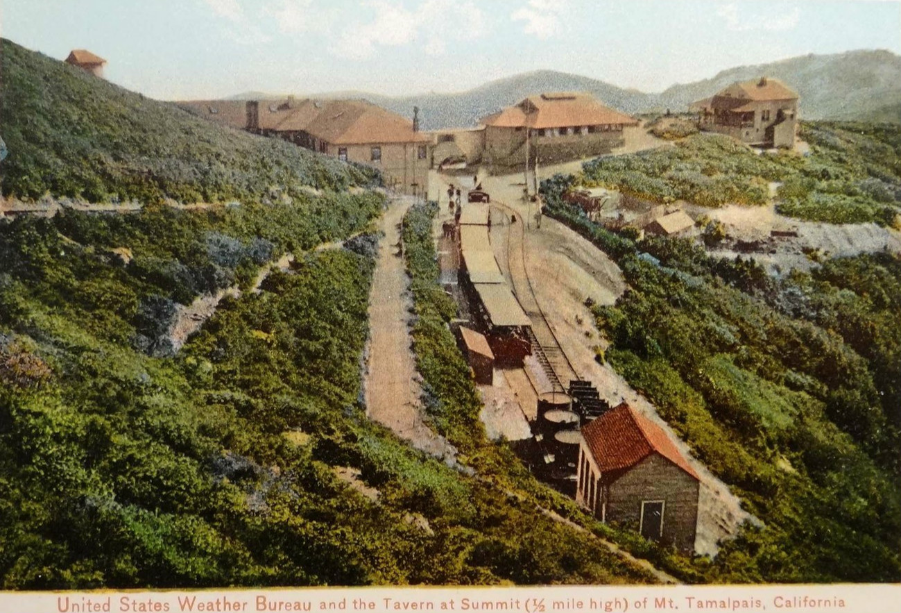 Photo postcard of the US Weather Bureau station and tavern at Mount Tamalpais, California circa 1900s.